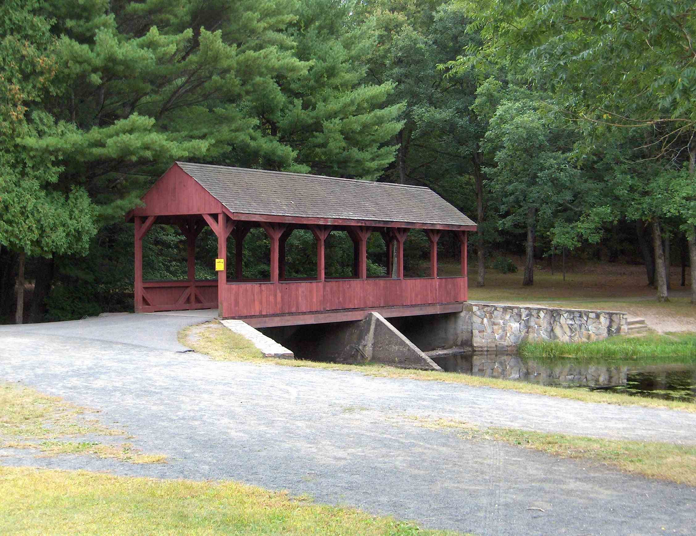 Covered bridge walkway at Stratton Brook State Park in Simsbury, CT USA